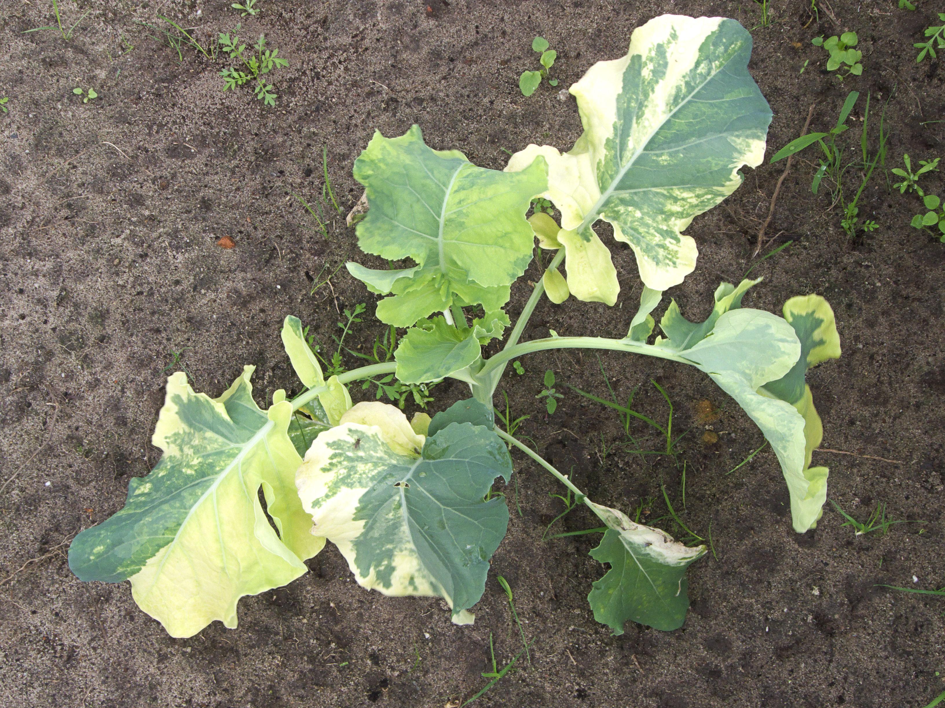 Broccoli 'Southern Comet' chlorophyll mutant